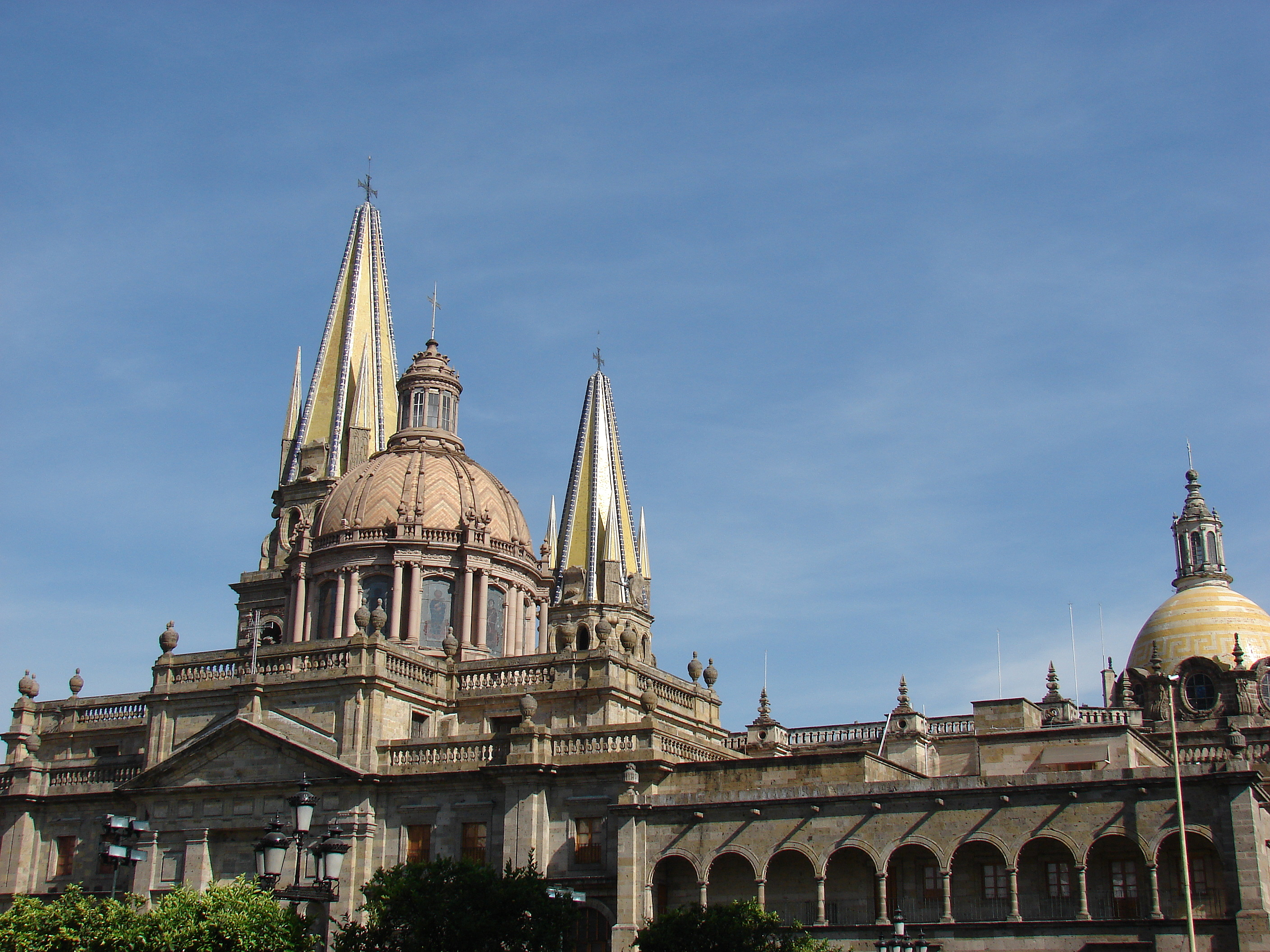 Picture of the Guadalajara Cathedral, in Guadalajara City, Mexico.